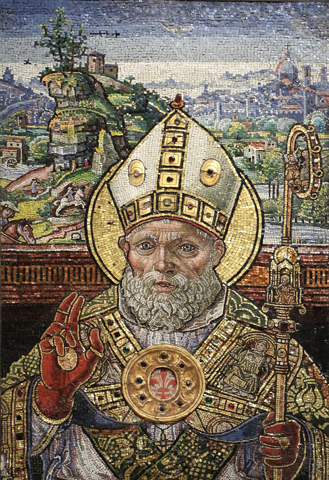 Museo dell'Opera del Duomo (Florence)